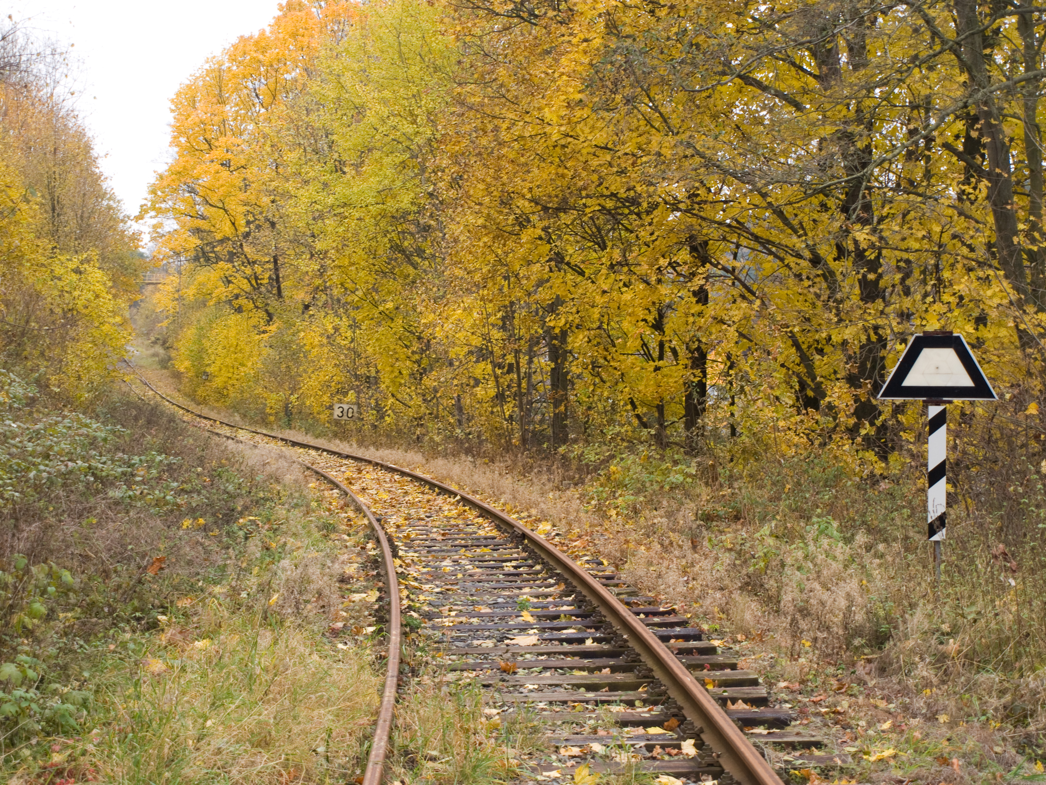 Track segment between Malá Morávka and Rudná pod Pradědem zastávka (see GPS) towards Malá Morávka, railway track n. 312 Bruntál – Světlá Hora – Malá Morávka